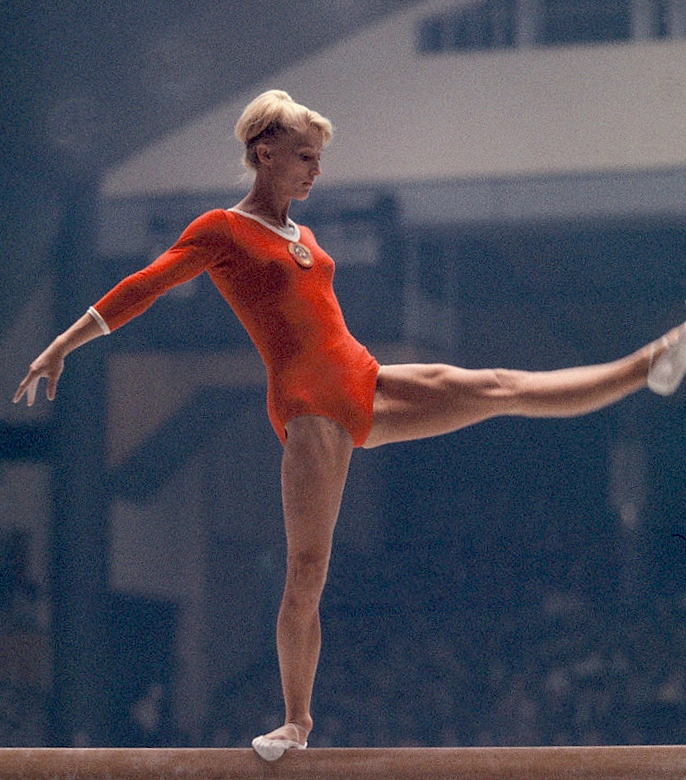 Polina Astakhova at the 1964 Olympics